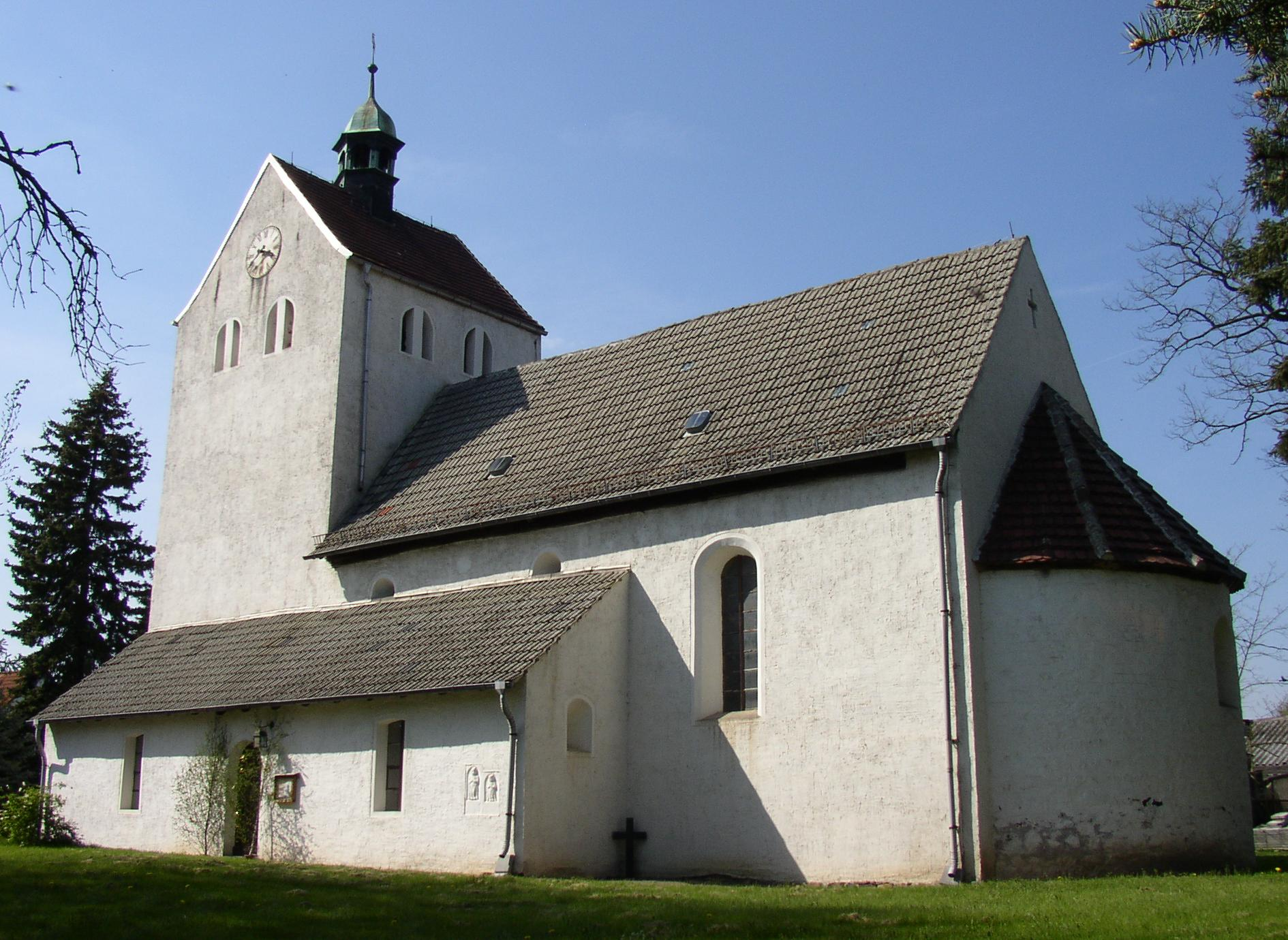 St. Martin Church in Dreiheide-Weidenhain in Saxony, Germany